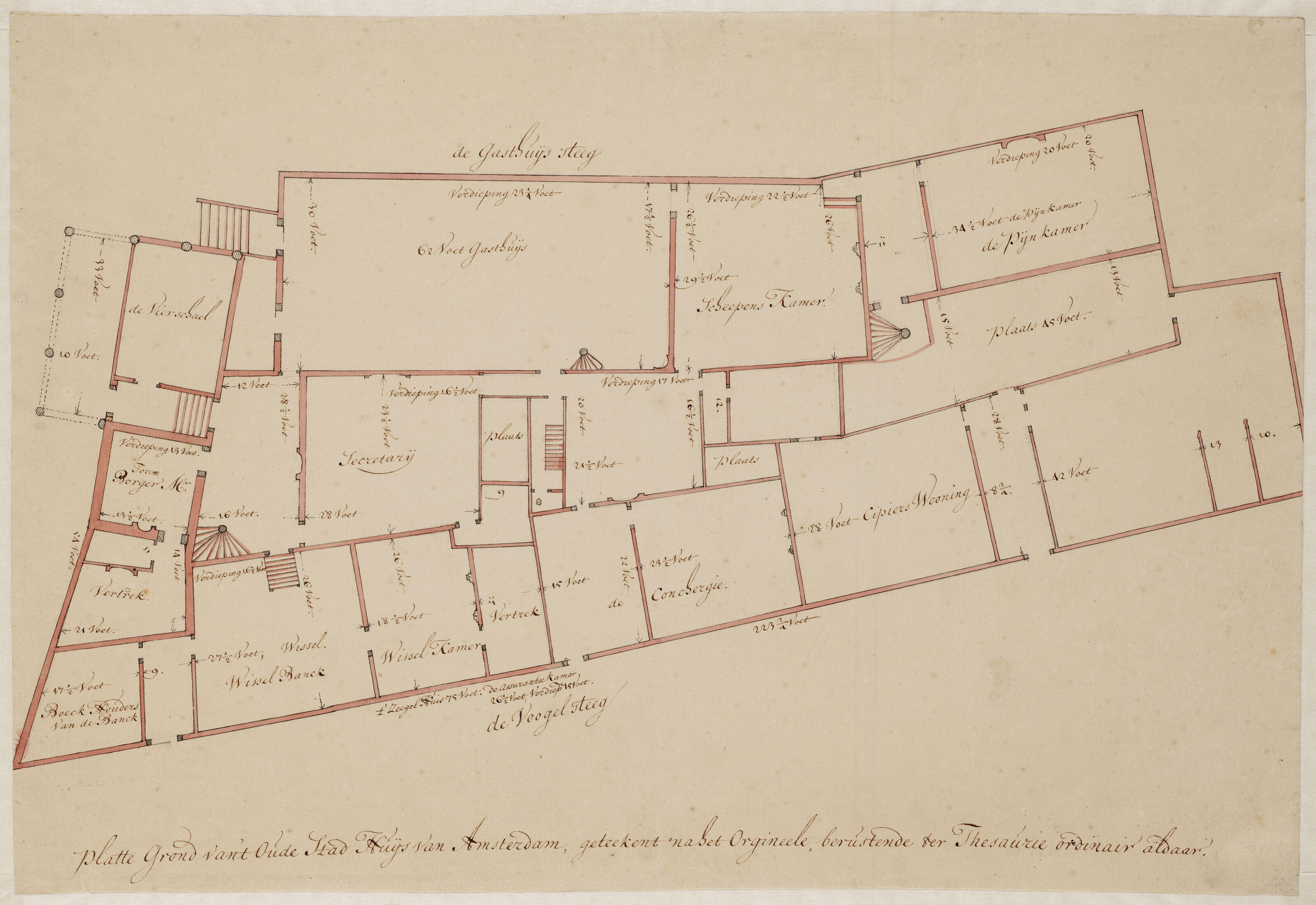 Old city hall, Amsterdam, plan.